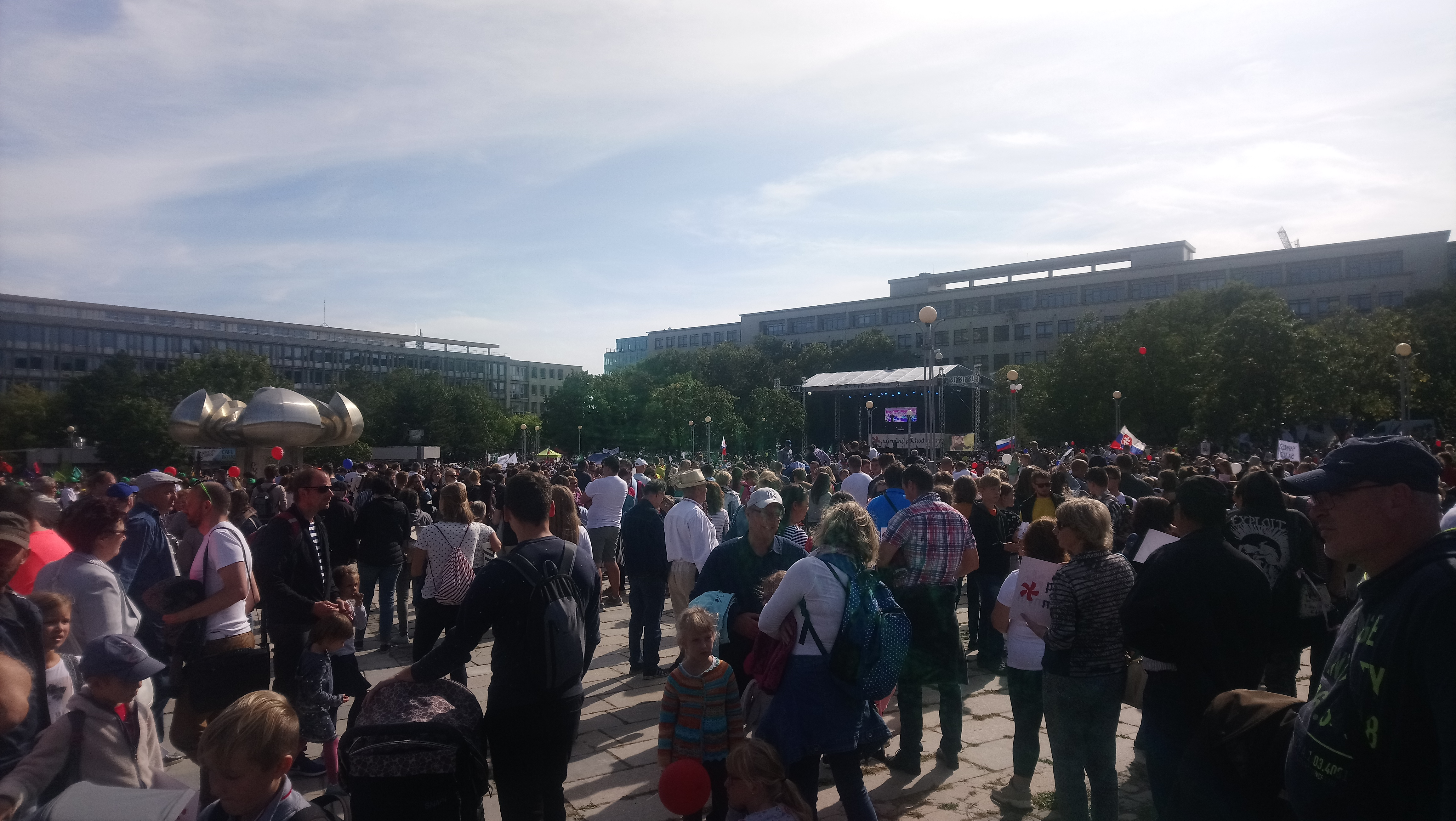 Inaugural part of National March for Life 2019 in Bratislava, at Námestie slobody on 22nd of September, 2019